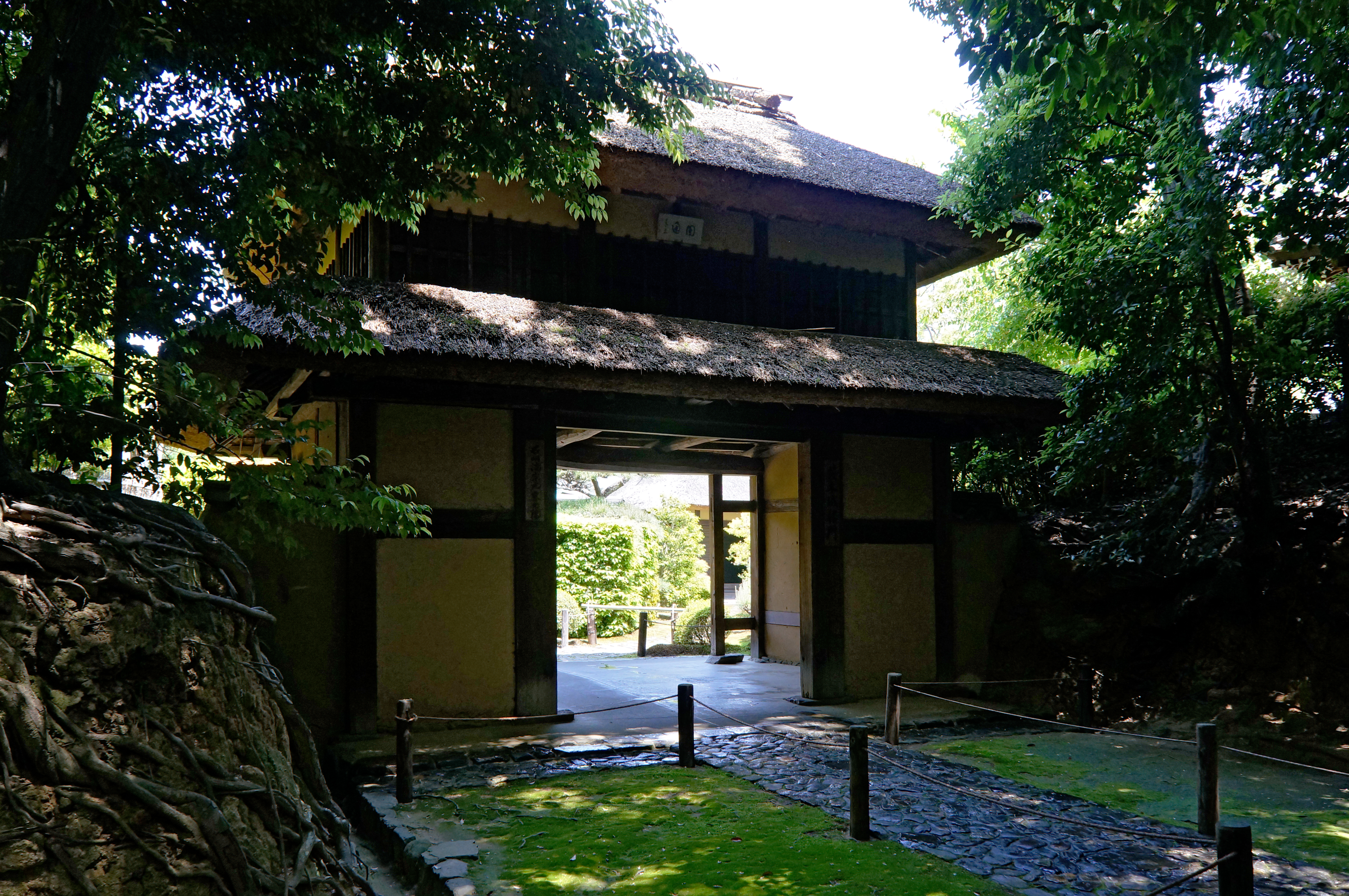 Jikō-in in Yamatokoriyama, Nara prefecture, Japan.